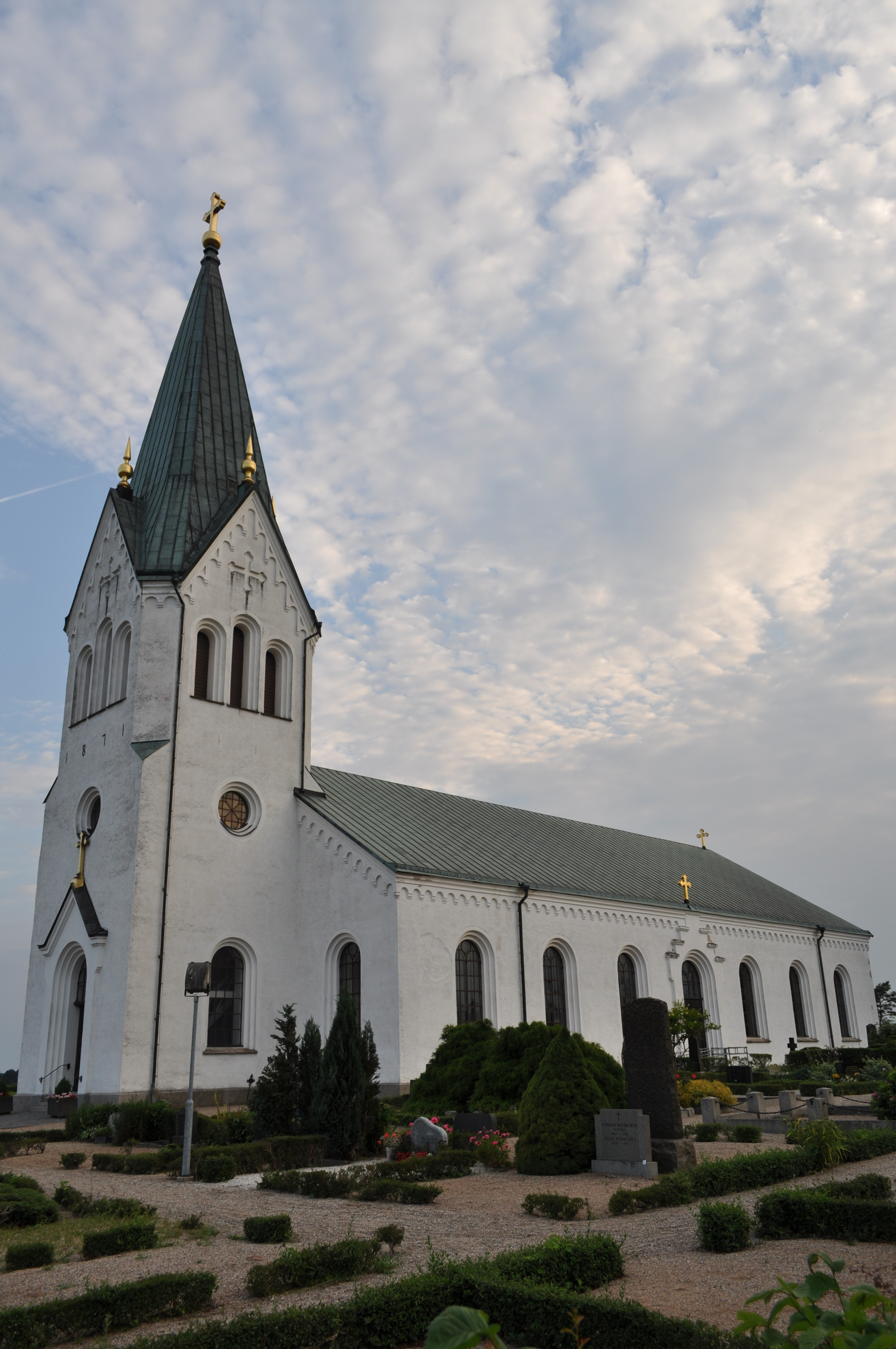 Näsums church - kyrka